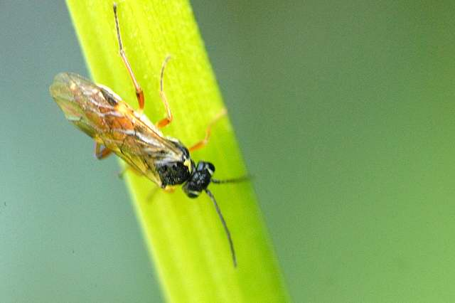 Aglaostigma fulvipes from Commanster, Belgian High Ardennes .